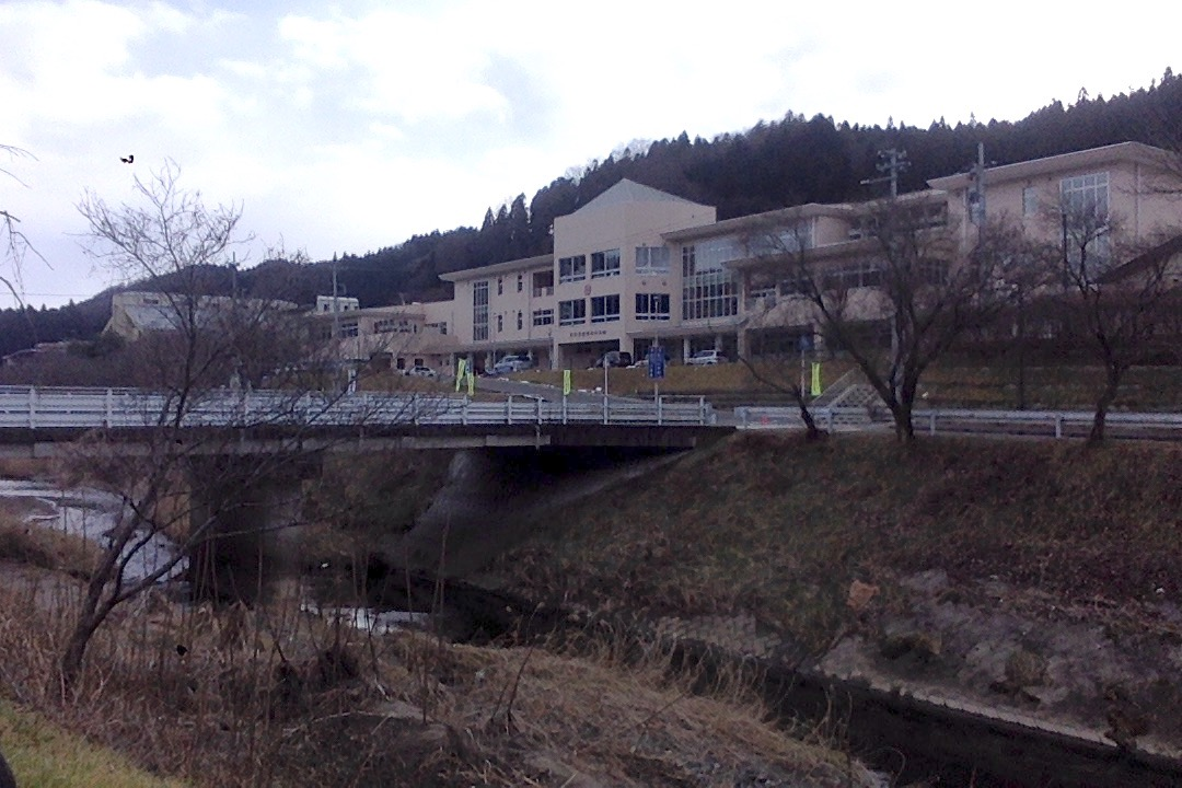 The newly integrated Ishikawa Elementary School buildings were constructed in new location, and the new school was opened in 2015. The former Ishikawa Elementary School building was deduced into two-story welfare/education complex, which now houses town library, etc.